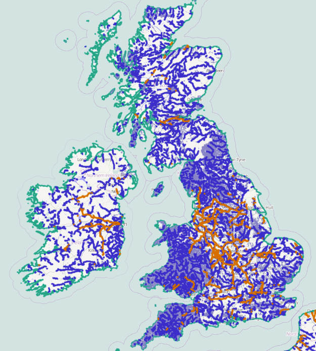 Showing Canals of the United Kingdom and Ireland in orange and also rivers in blue and streams in grey.